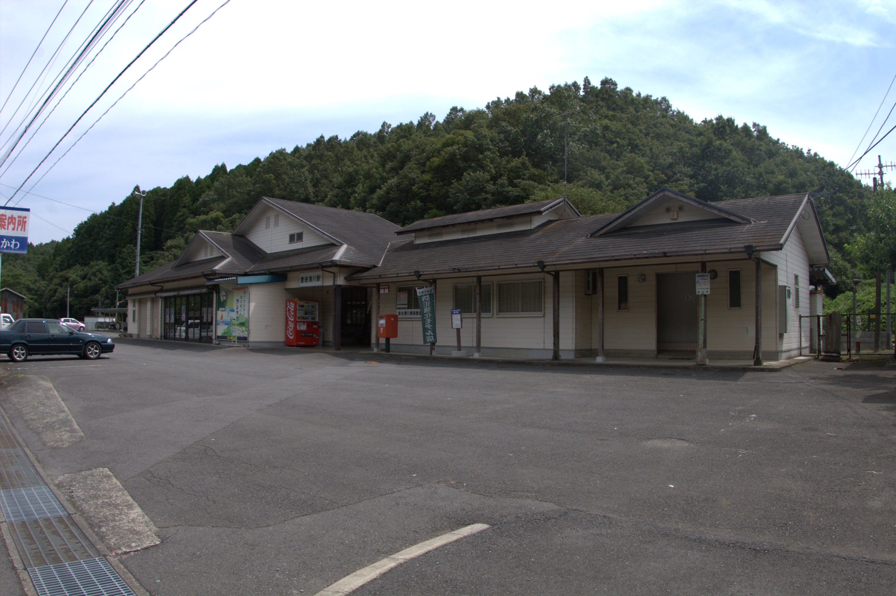 JR Kyushu Bungo Kiyokawa Station on Hohi Main Line.